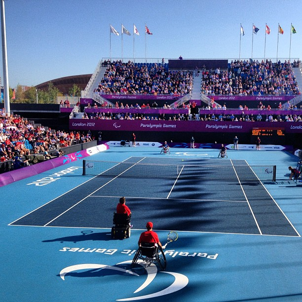 Nick Taylor near left and David Wagner near right of the USA play Peter Norfolk far left and Andrew Lapthorne far right in the Quad doubles final. The American pair won after three tough sets.